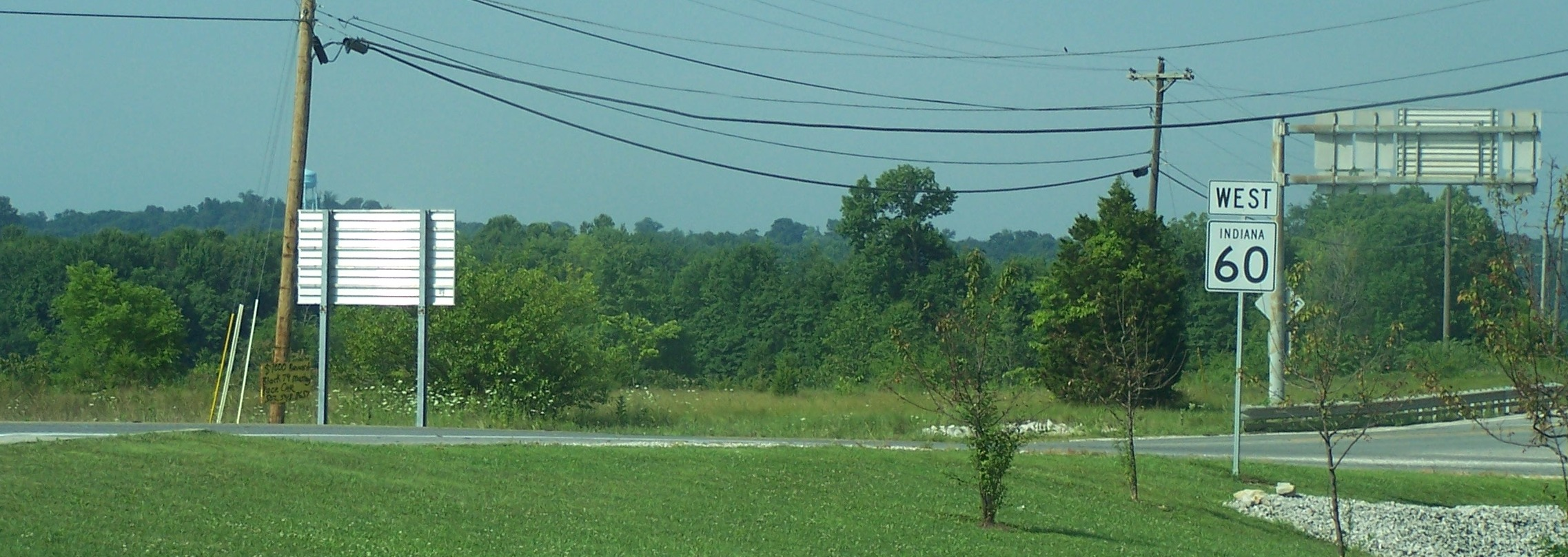 Indiana State Road 60 headed west.